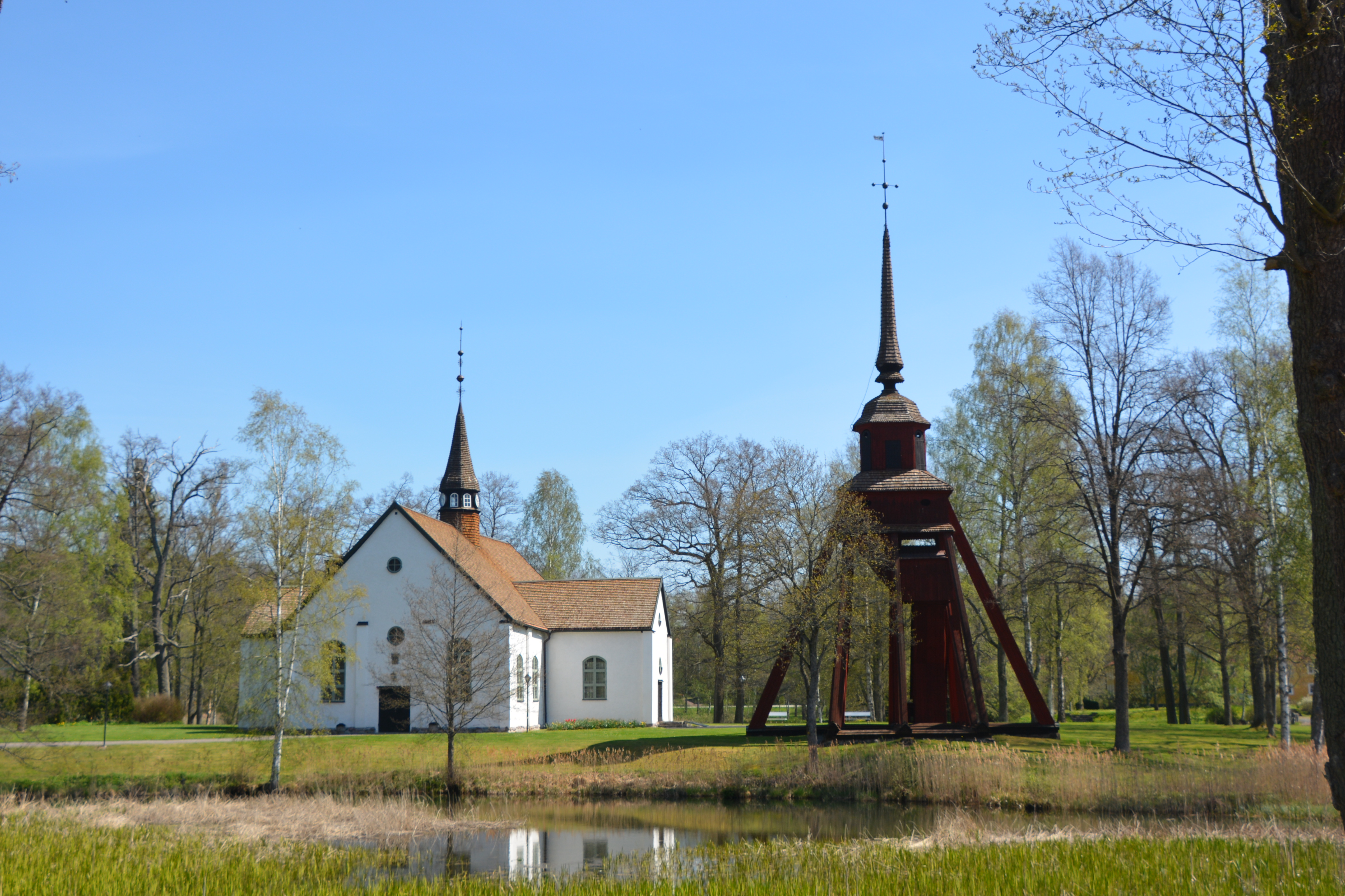 Gusums kyrka